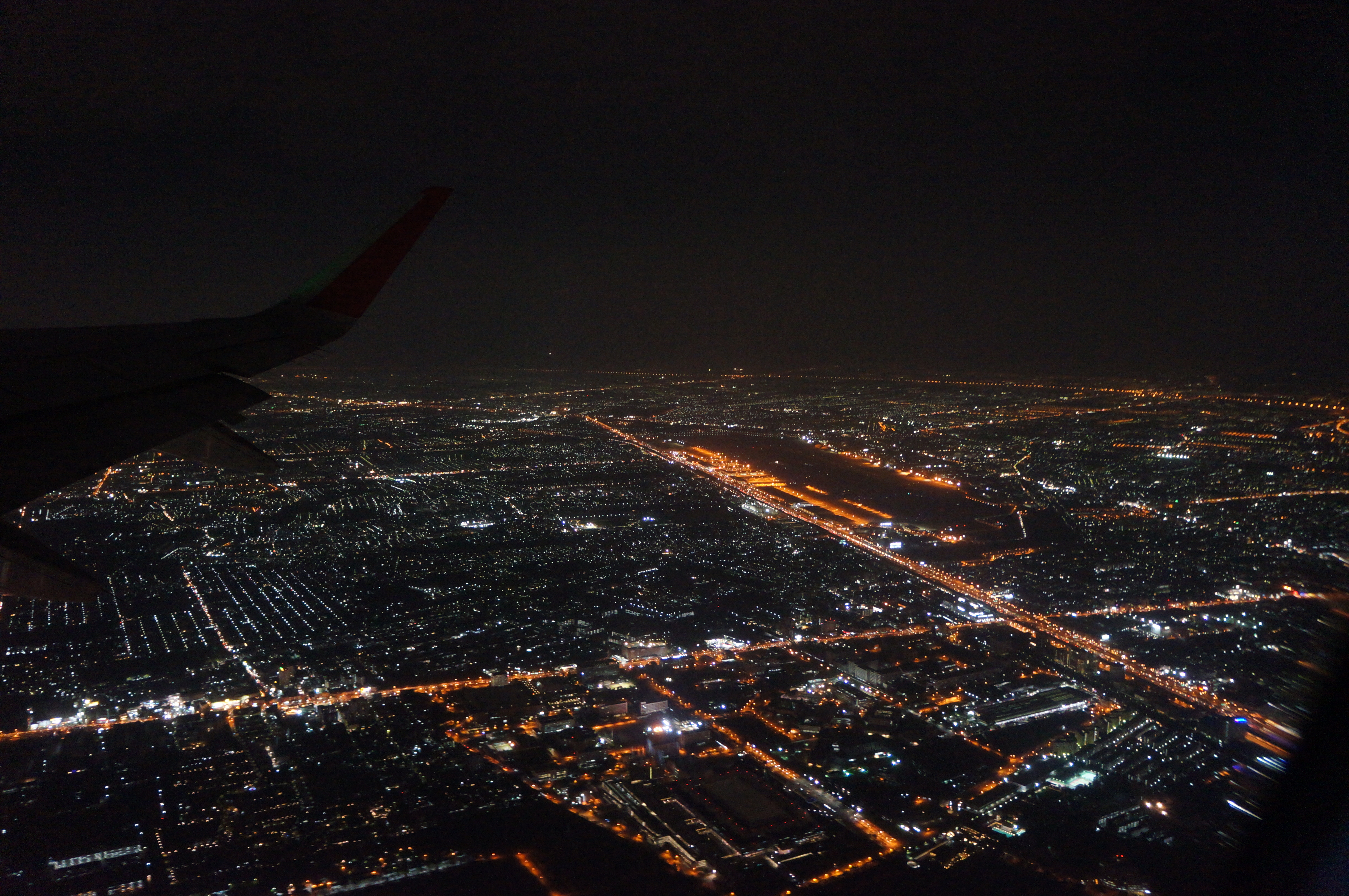 201701 Aerial photo of Don Mueang District at night